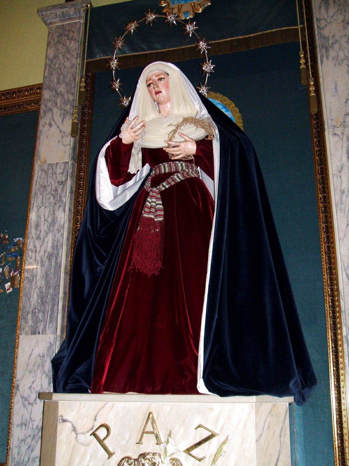 Parroquia de Nuestra Señora de Belén y San Roque, Jaén (Andalucía, España)